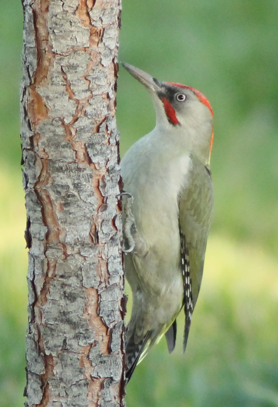 A male Iberian Woodpecker (Picus sharpei) in Madrid (Spain).